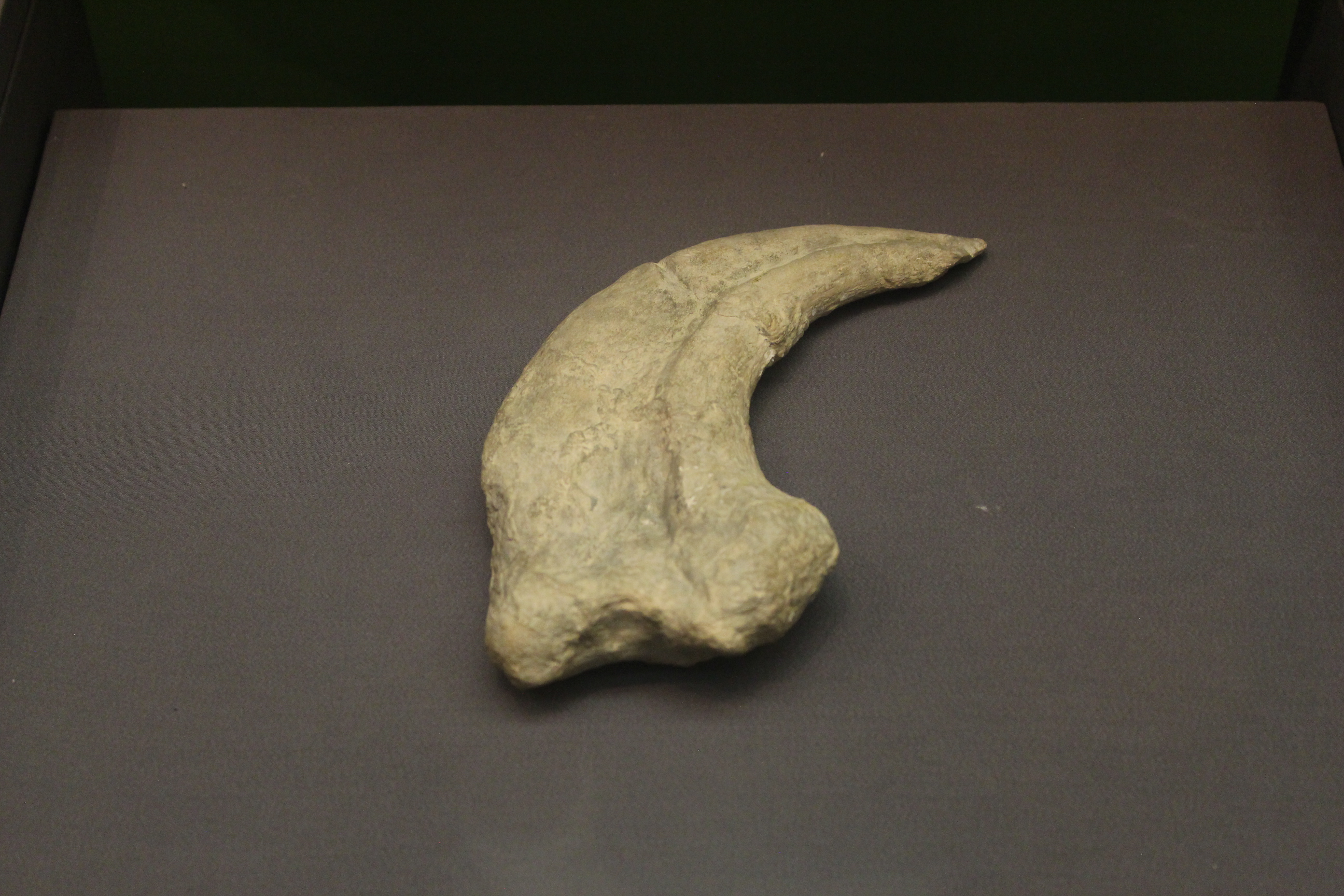 Claw of Chilanataisaurus tashuikouensis on display at the Tianjin Natural History Museum.